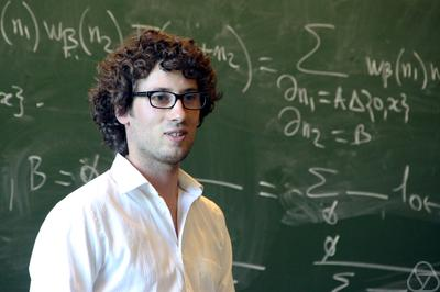 Hugo Duminil-Copin in Oberwolfach, 2014